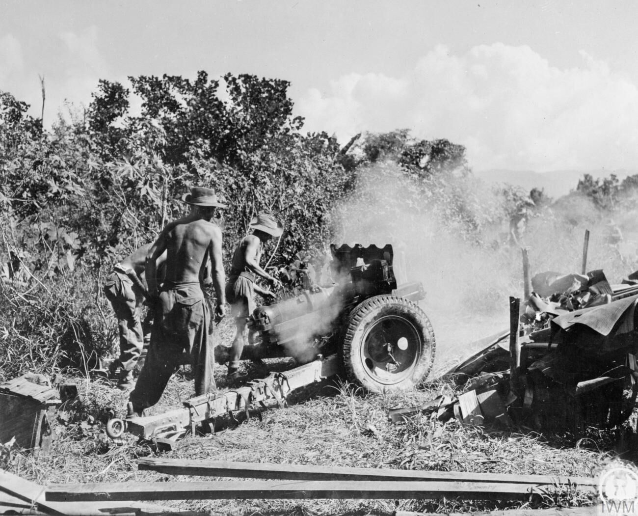 THE BRITISH ARMY IN BURMA 1944 A 3.7-inch howitzer of 158th Field Artillery Regiment, 36th Infantry Division, in action against Japanese positions south of Mawlu